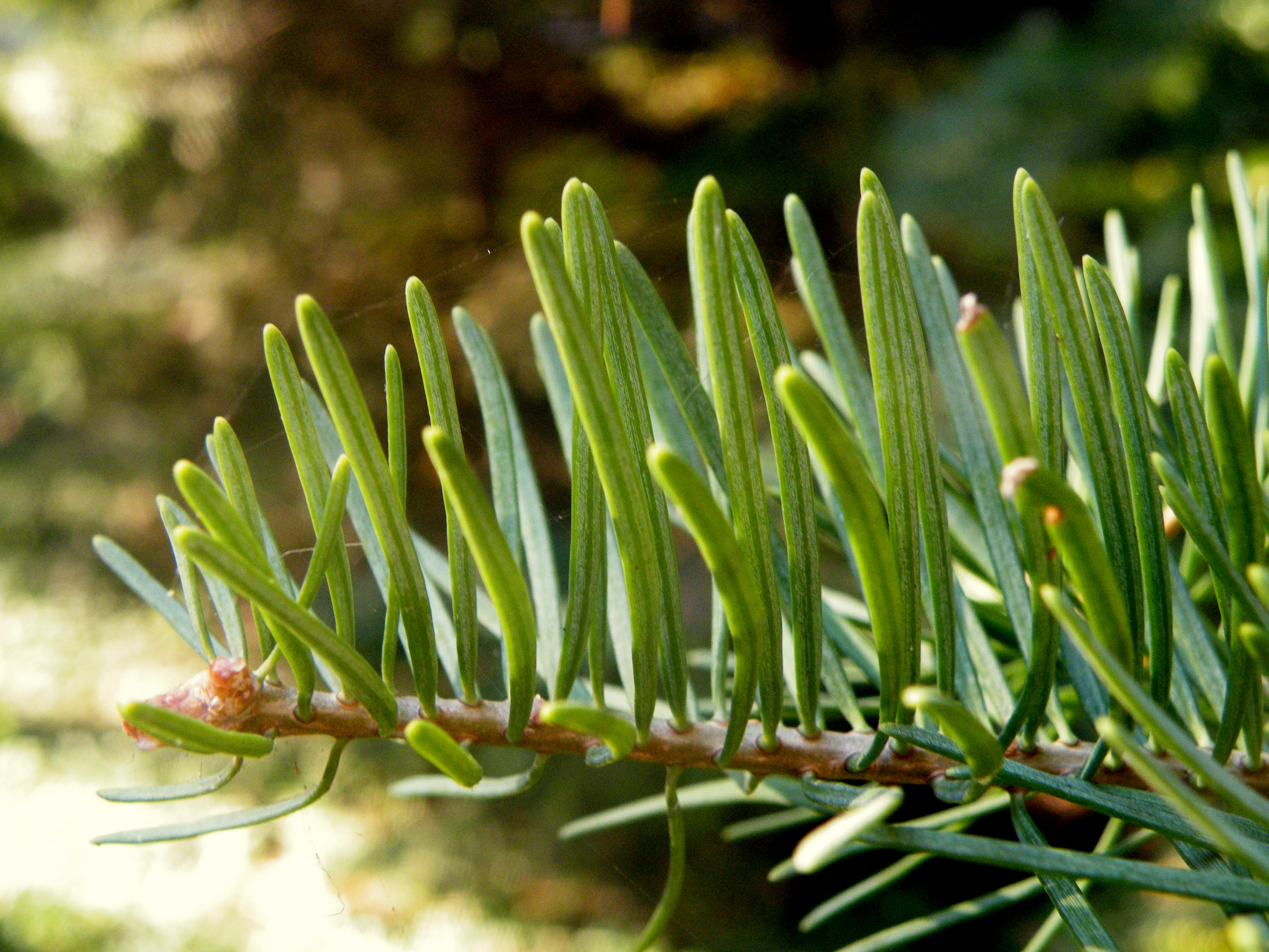 Abies concolor, commonly known as the white fir, is a fir native to the mountains of western North America, occurring at elevations of 900–3,400 m (3,000–11,200 ft). It is a medium to large evergreen coniferous tree growing to 25–40 m tall and with a trunk diameter of up to 2 m (6.6 ft). It is popular as an ornamental landscaping tree and as a Christmas tree. It is sometimes known as concolor fir. This media file is produced by Wikipedian in Residence in Botanical Garden Jevremovac in 2015.